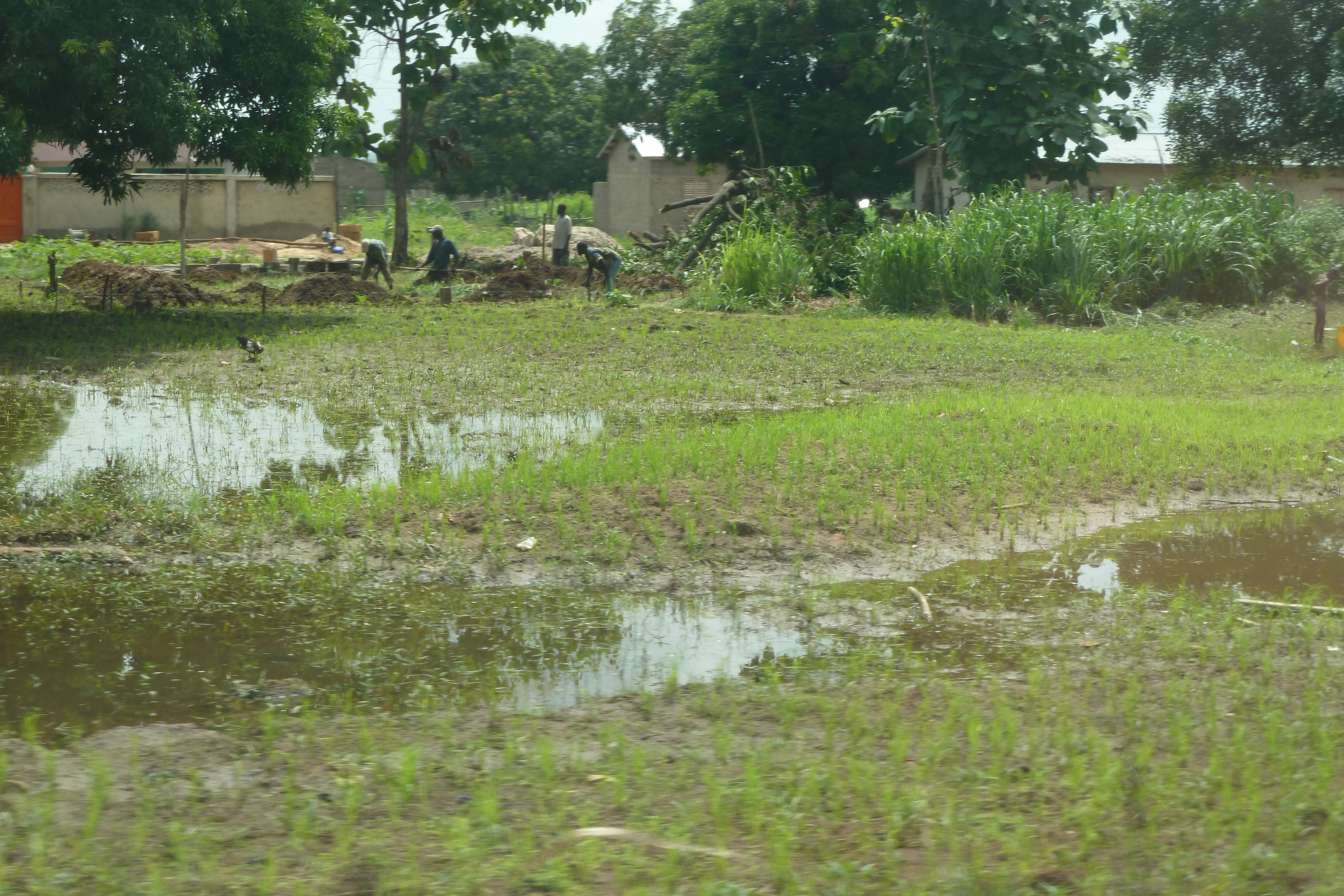 Rice cultivation in Benin